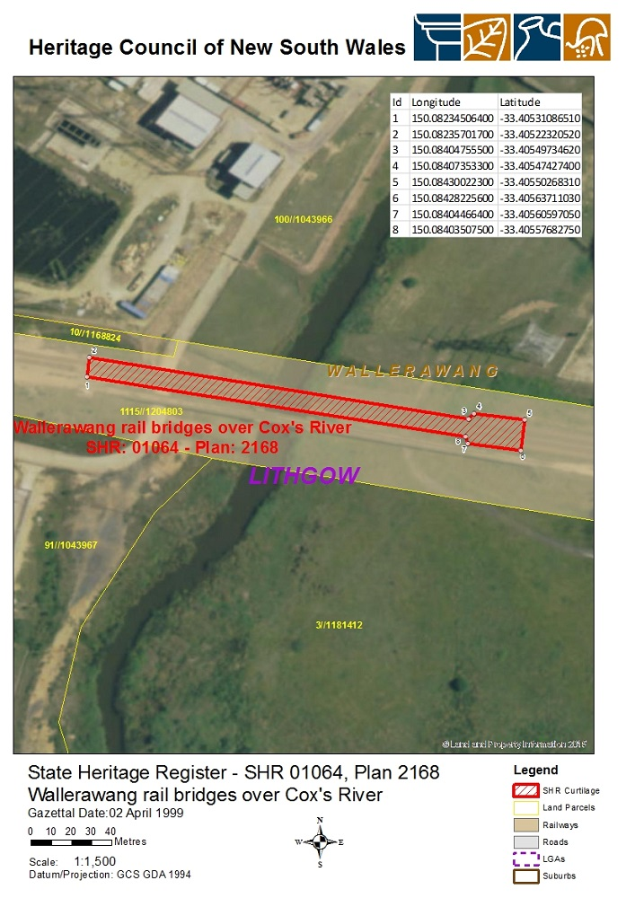 Coxs River railway bridges, Wallerangang: SHR Plan No 2168